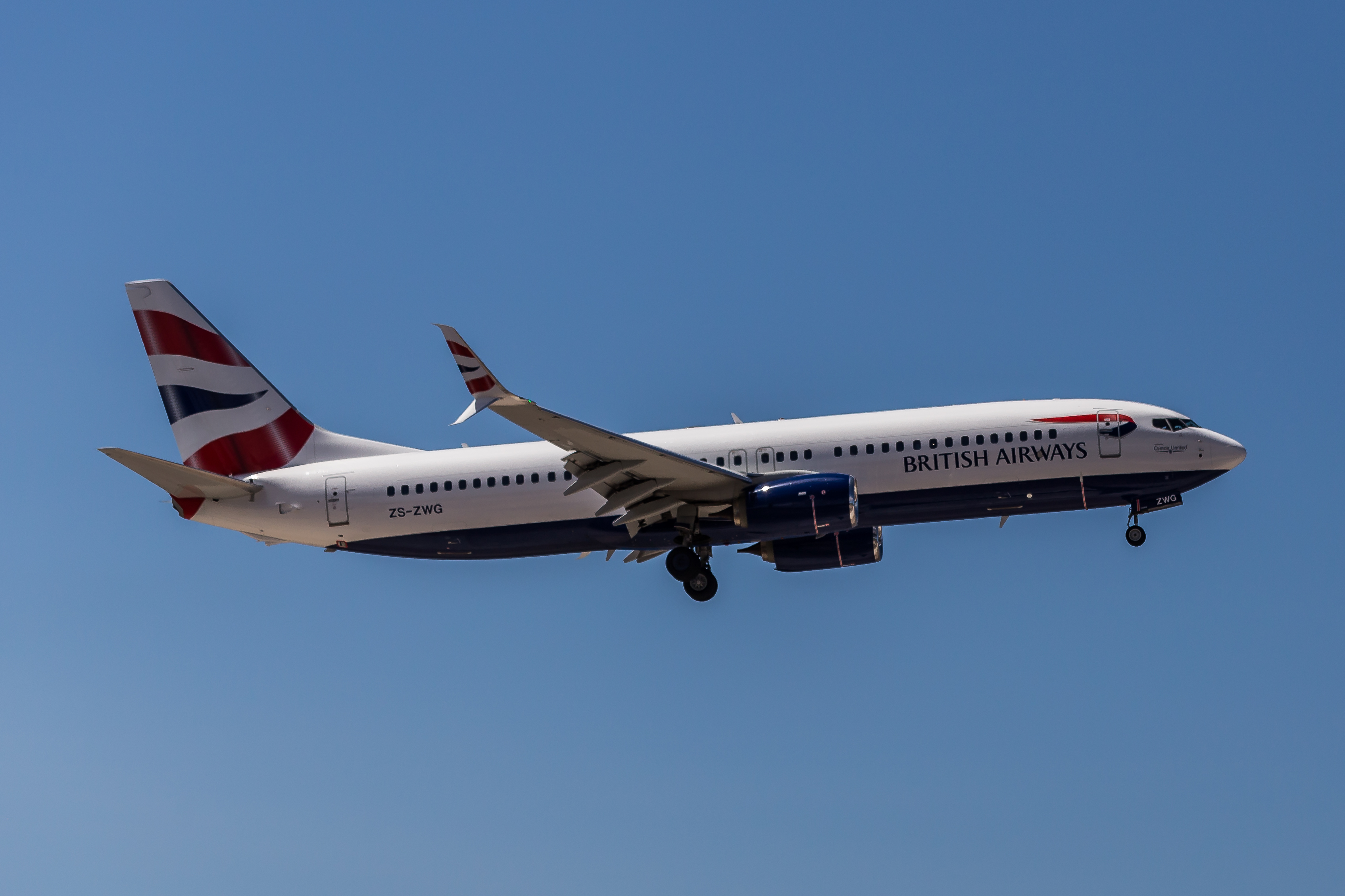 First Comair Boeing 737-800 flight to Saint Helena Airport